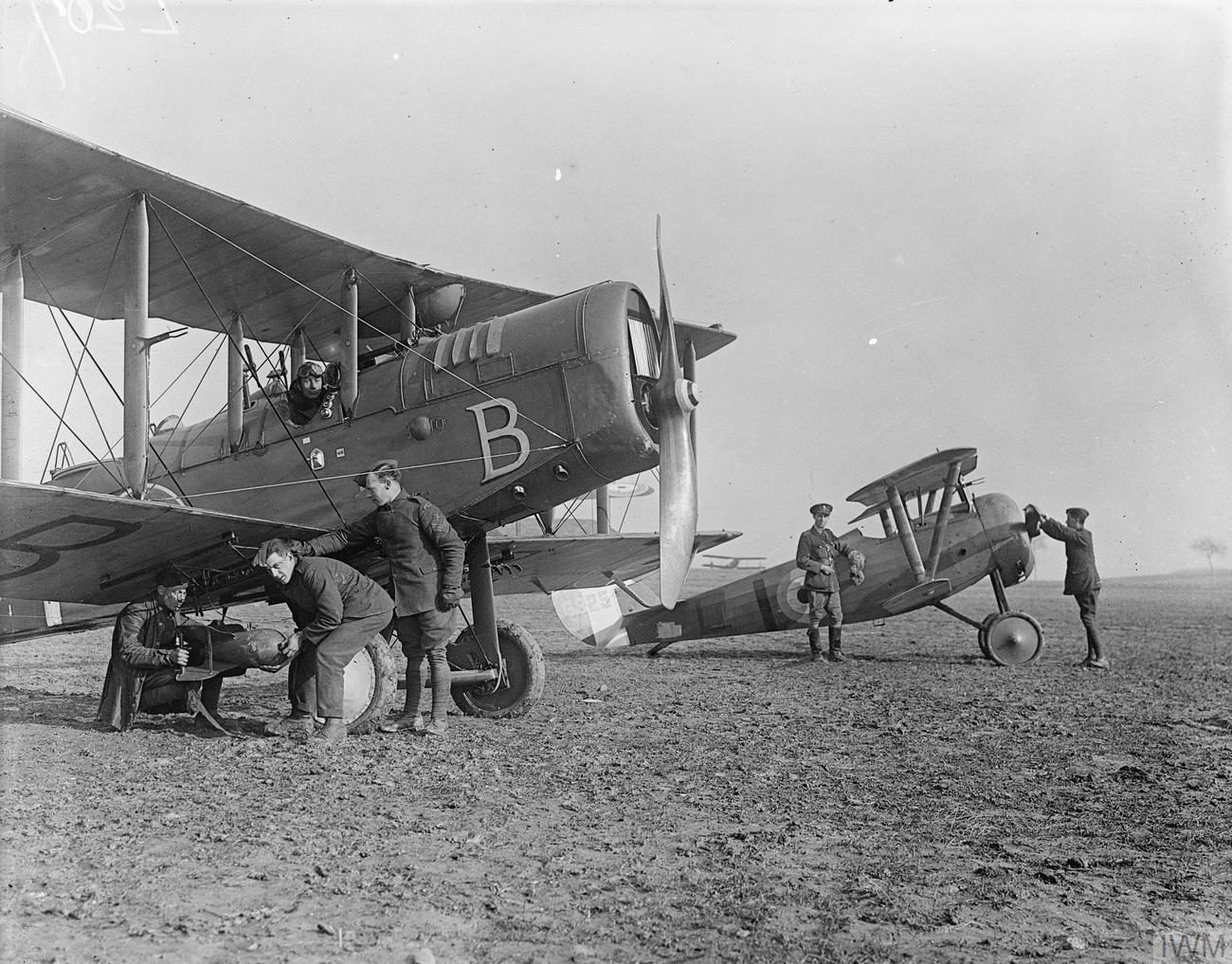 The Royal Flying Corps on the Western Front, 1914-1918 Air mechanics fixing bombs to the under-wing of an Airco DH.4 day bomber. On the right is a Nieuport single-seat fighter biplane ready to start as an escort for the bomber. Serny Aerodrome, 17 February 1918.